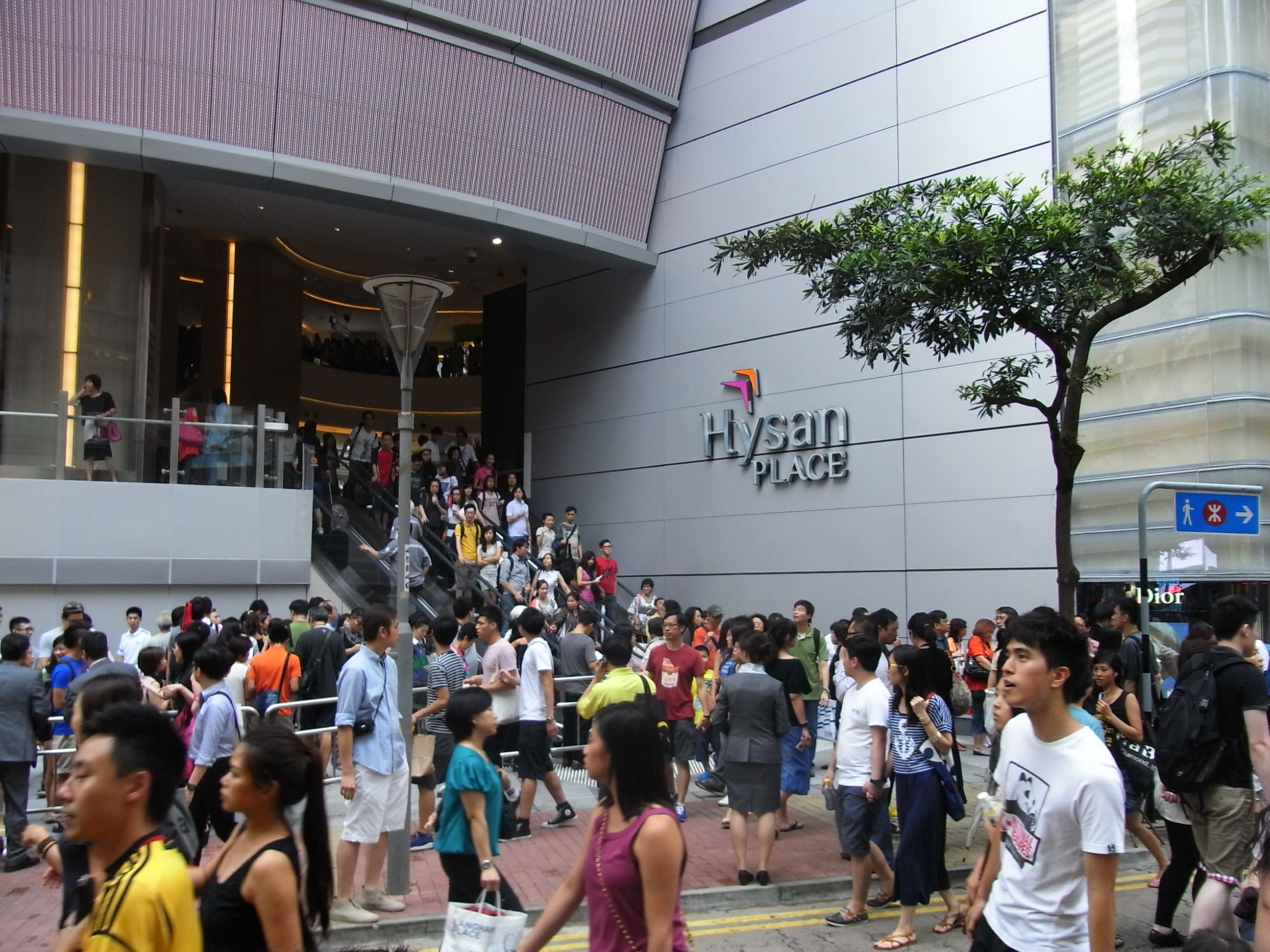 Kai Chiu Road, Lee Garden Hill, Causeway Bay, Hong Kong